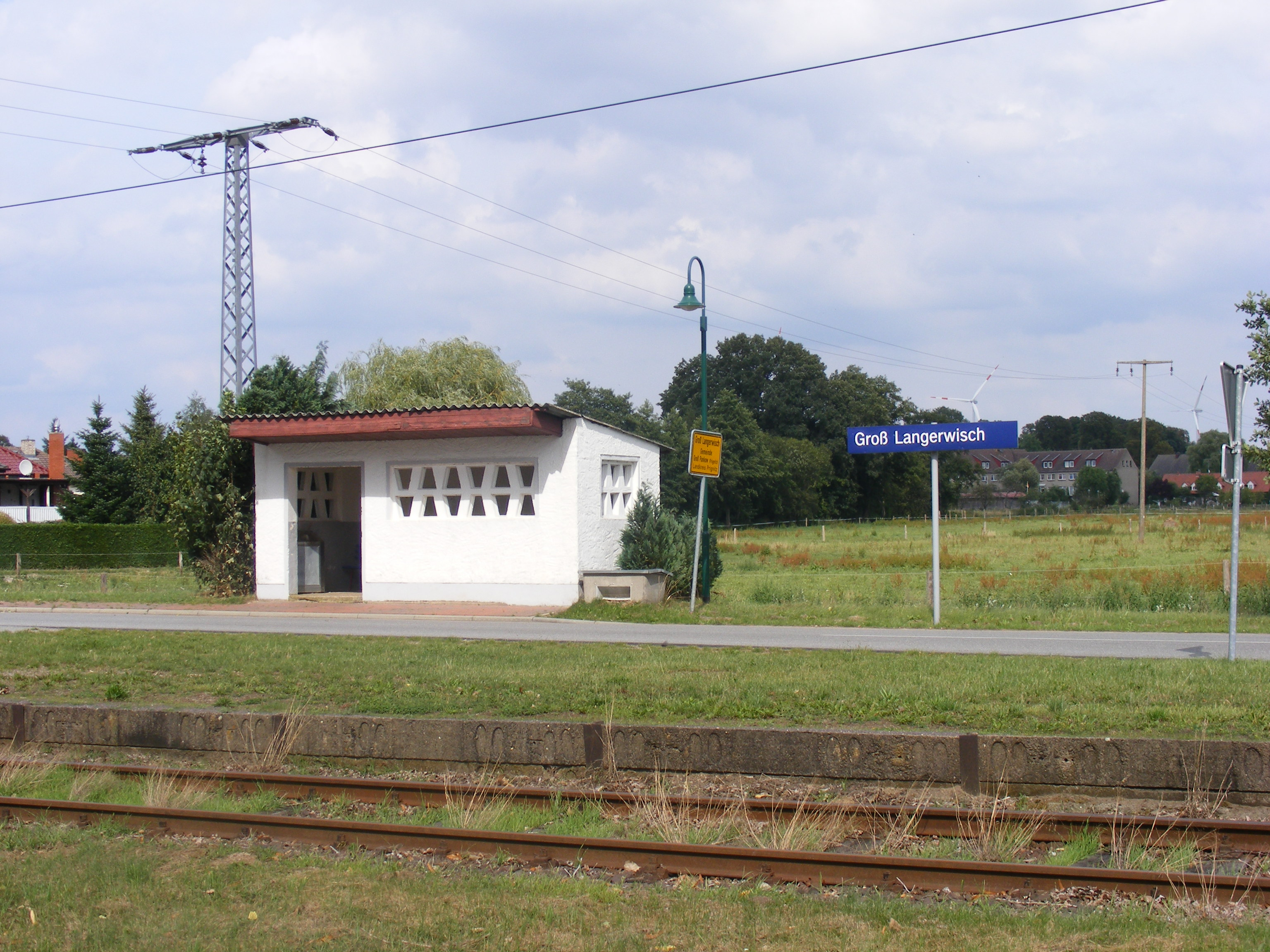 Gr. Langerwisch Railway Station, Germany